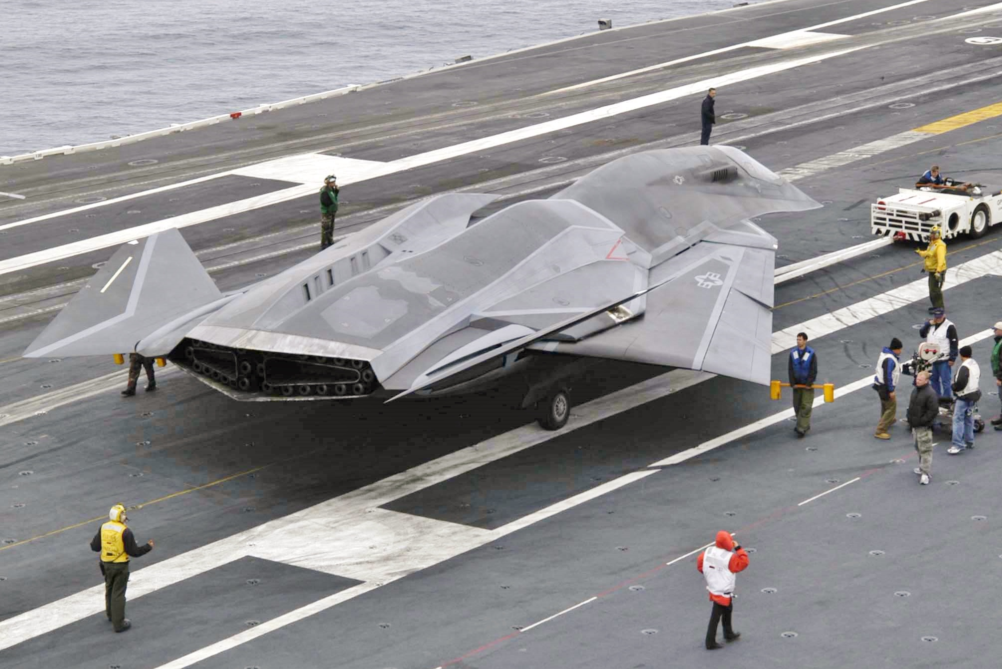 F/A-37 Talon during the shooting the film Stealth (2005). Caption provided by the U.S. Navy: 040618-N-8497H-031 Pacific Ocean (June 18, 2004) – Sailors assigned to the Air Department division aboard the Nimitz-class aircraft carrier USS Abraham Lincoln (CVN 72), move a fictitious jet aircraft during recent filming of the motion picture "Stealth.” "Stealth," starring Jessica Biel, Josh Lucas and Jamie Foxx, is due to be released next summer.